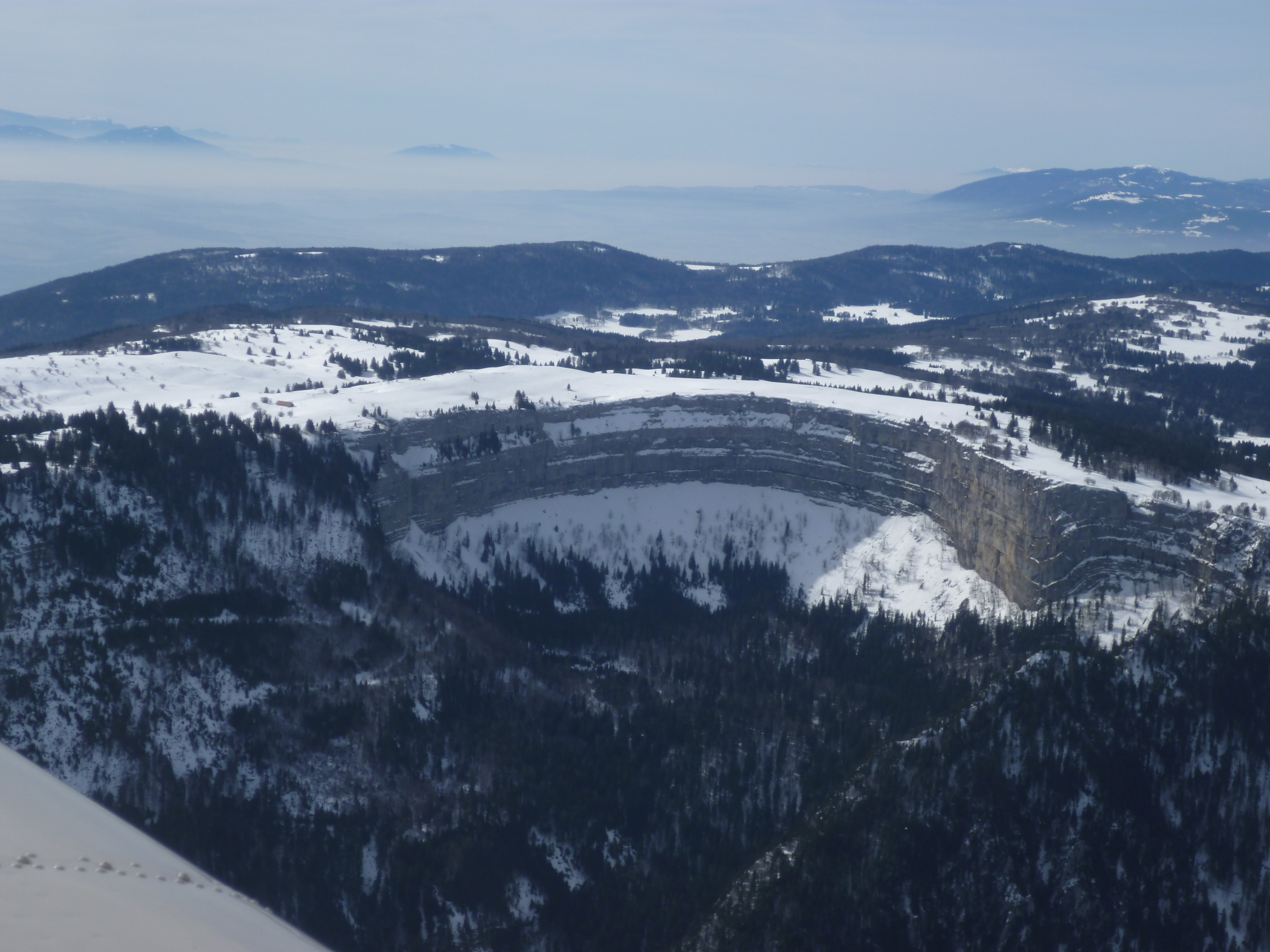 Creux du Van from the plane